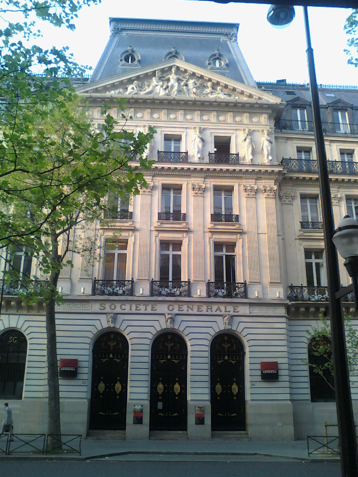 Société Générale headquarters, boulevard Haussmann 9th arr in Paris